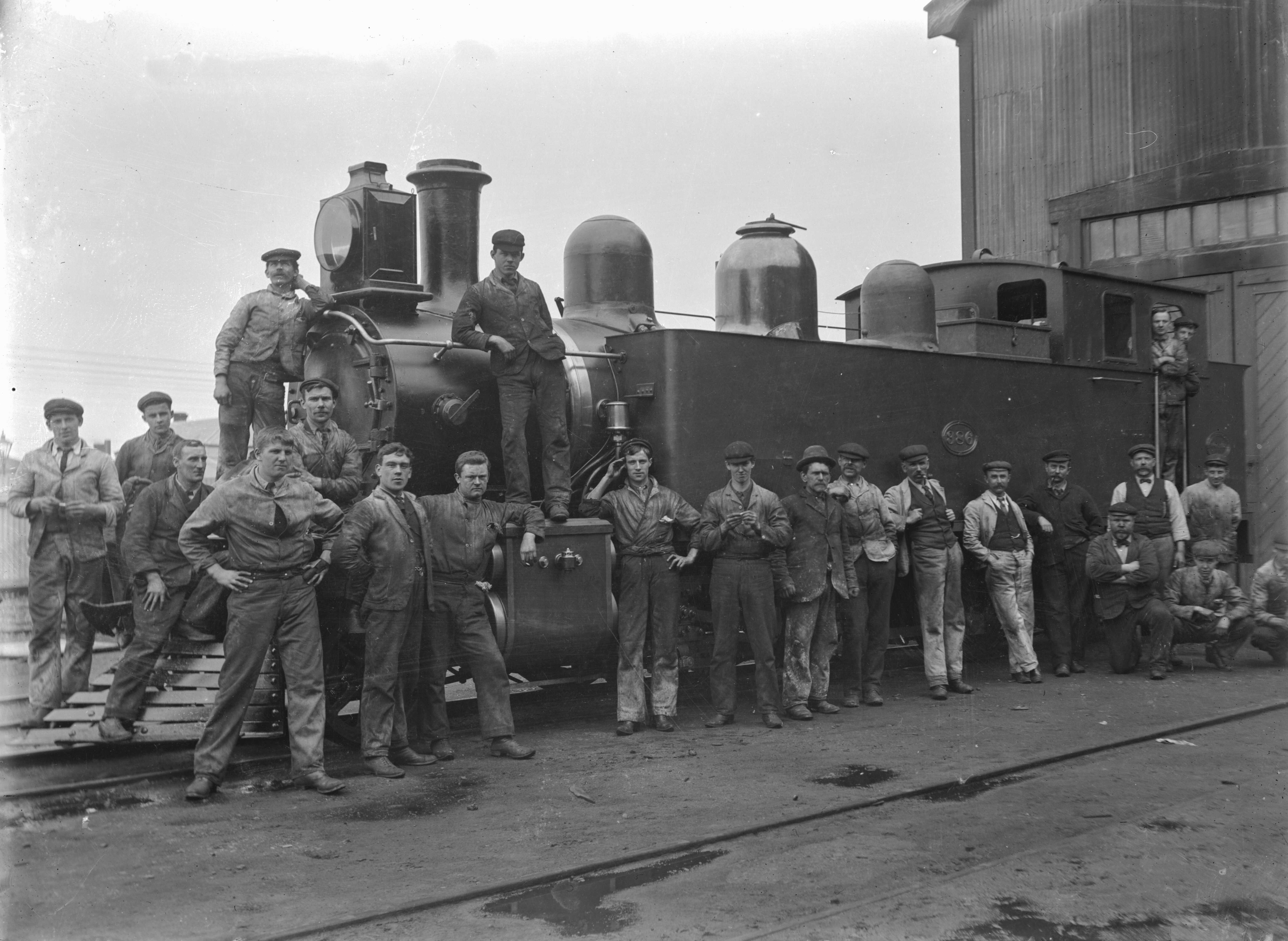 Wf class steam locomotive (NZR no. 386) and railway workers, photographed at the Petone Railway Workshops by Albert Percy Godber.